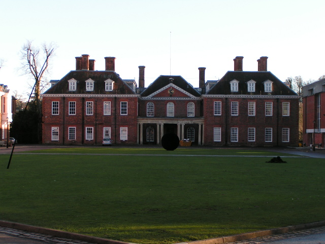 Marlborough College building